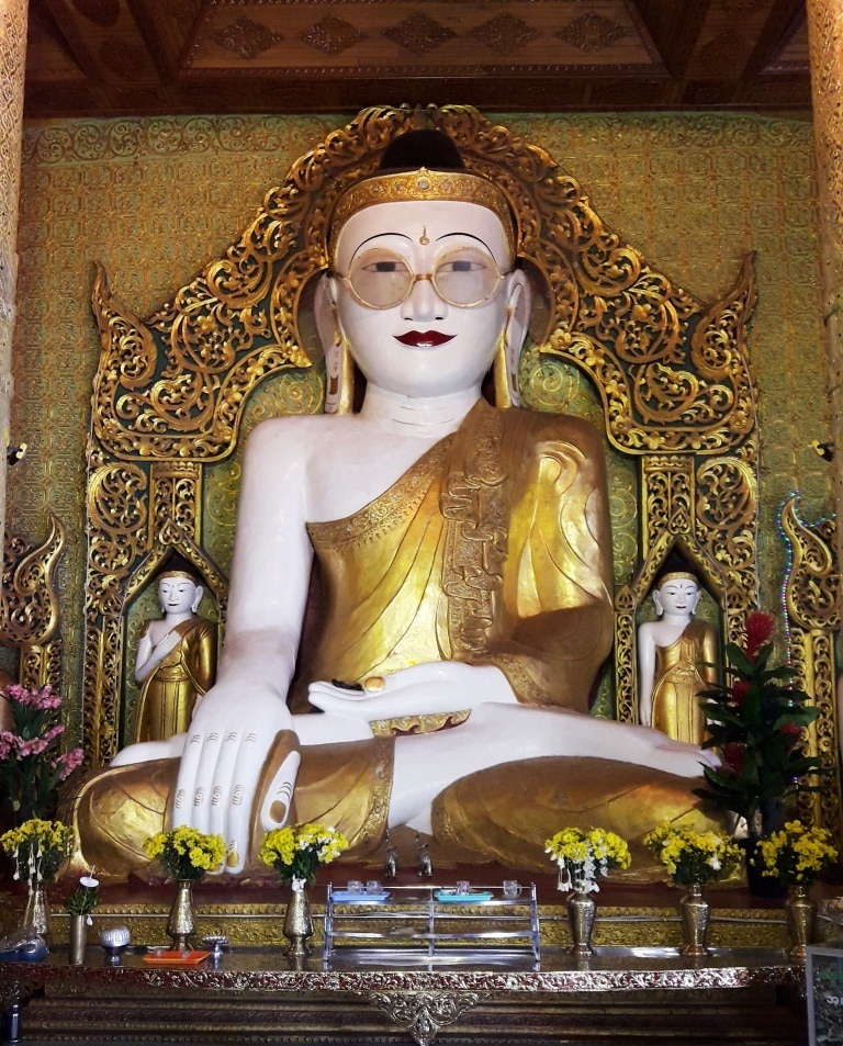 Shwemyetman Pagoda, Myanmar